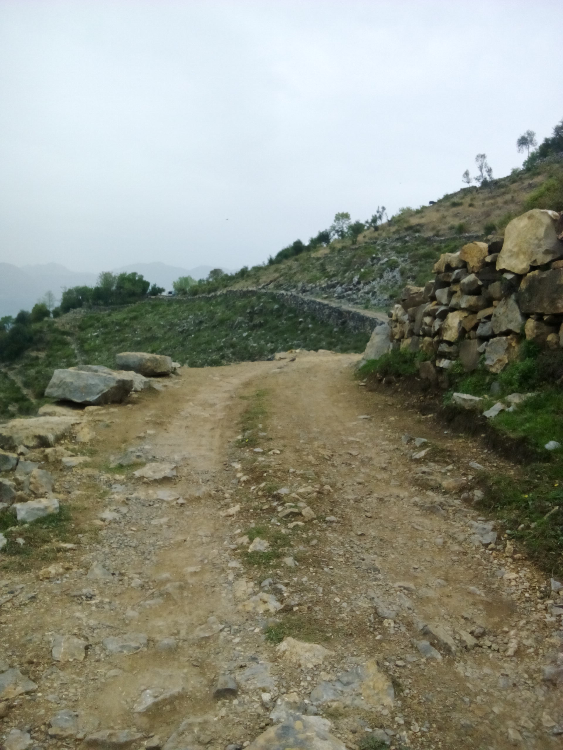 Sarban hill